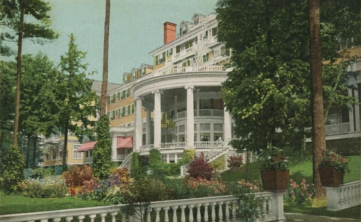 West front and flower garden, Hotel Aspinwall, Lenox, MA; from a 1912 postcard printed by the Detroit Publishing Company. Built in 1902 by General Thomas H. Hubbard, it burned to the ground in 1931. The site is now Kennedy Park.